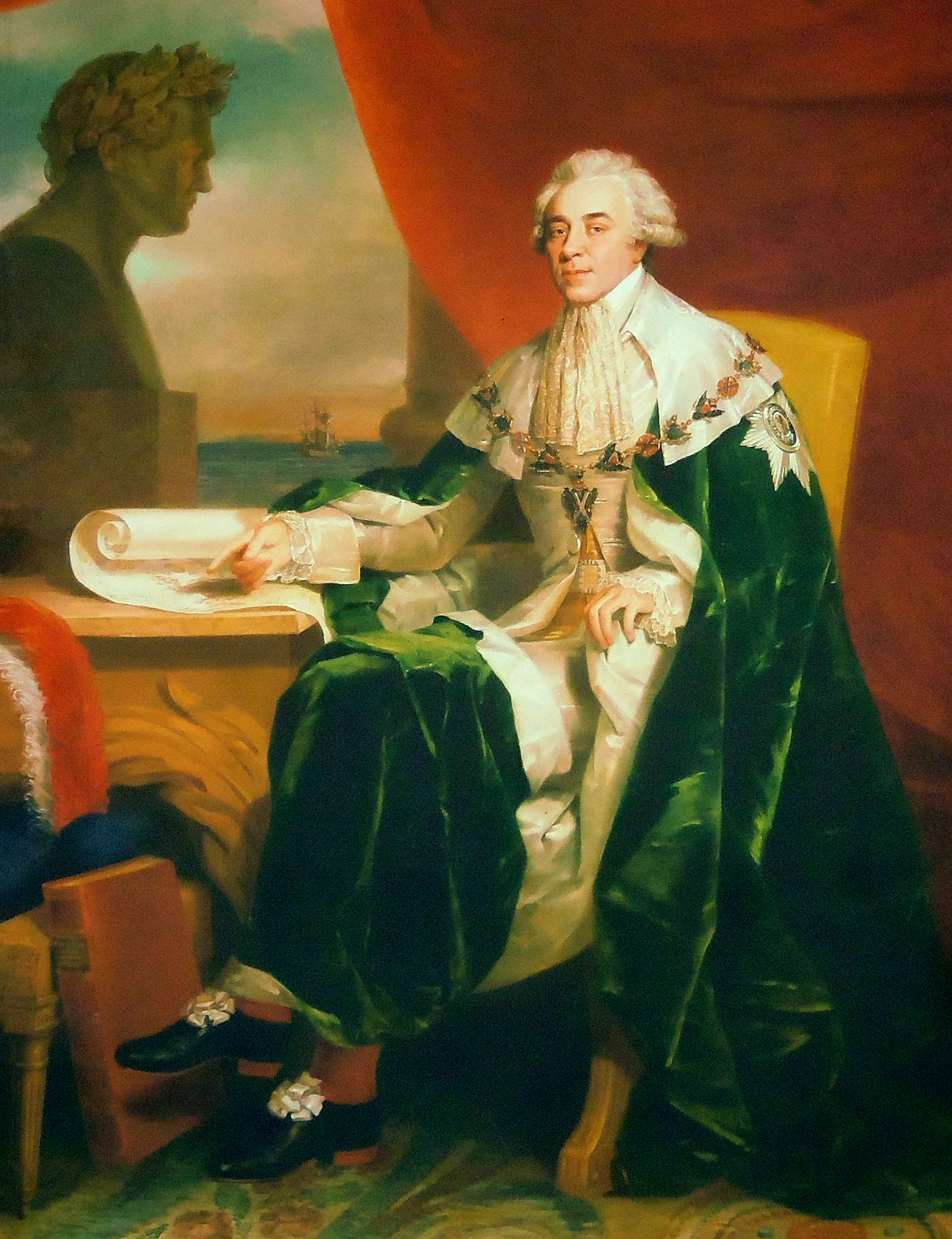 Portrait of Chancellor Nicholas Rumyantsev.